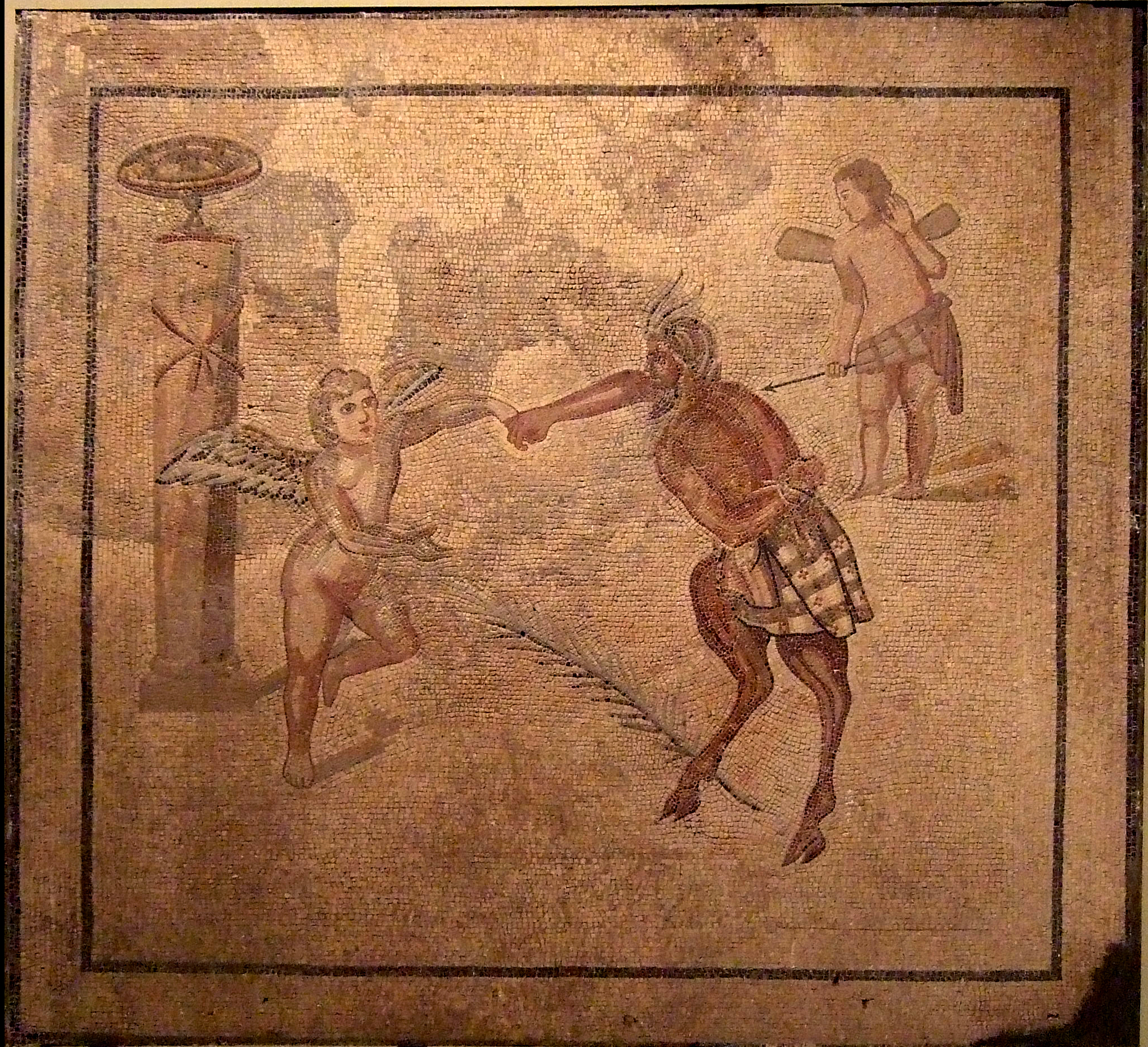 Mosaic of Eros and Pan (2nd to 3rd c. AC). Caesaraugusta. Spain